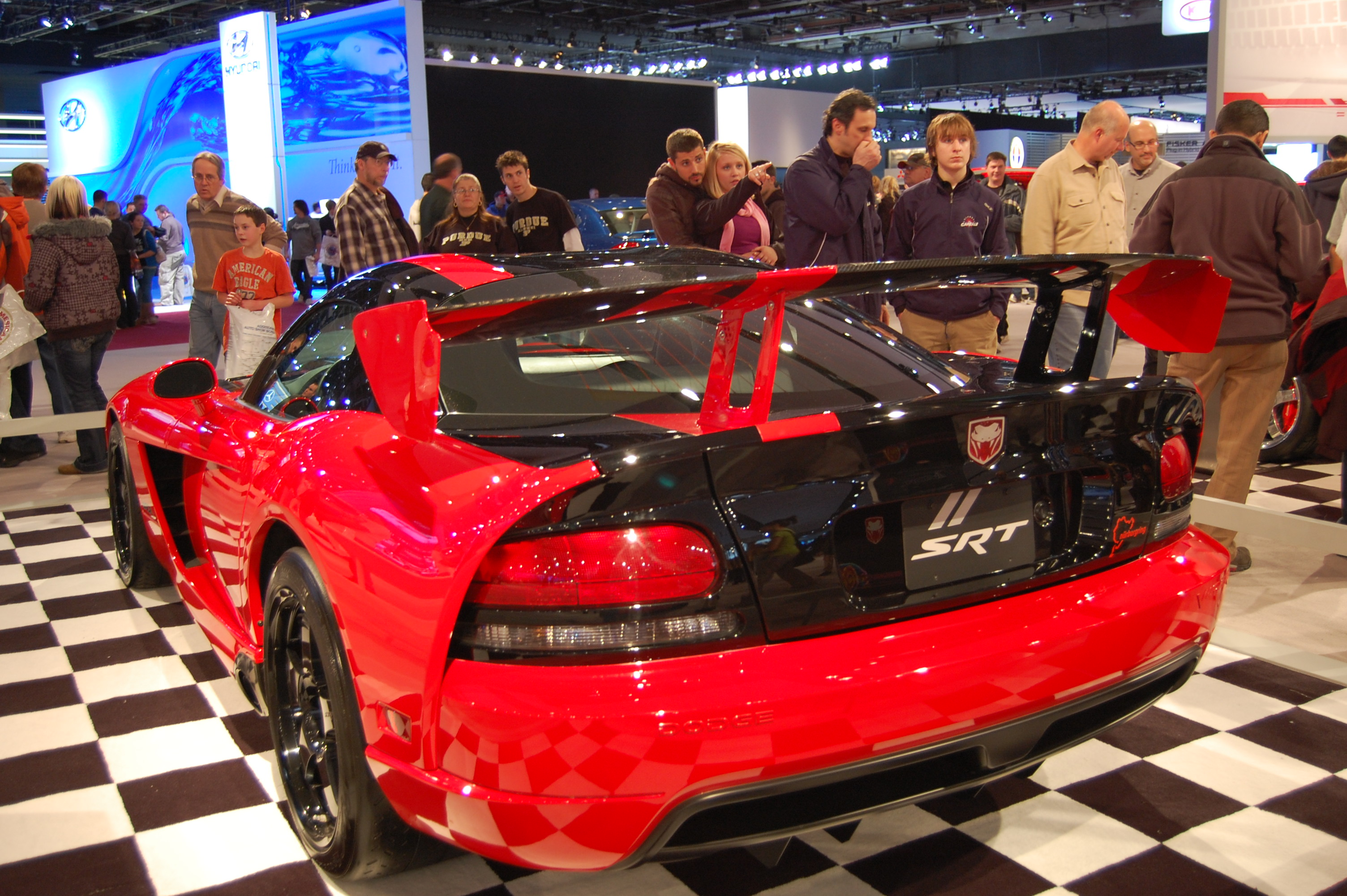 This is my own work, taken at the 2009 North American International Auto Show.